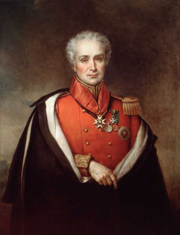 Sir Peregrine Maitland, KCB [Lieutenant Governor of Upper Canada, 1818-28]